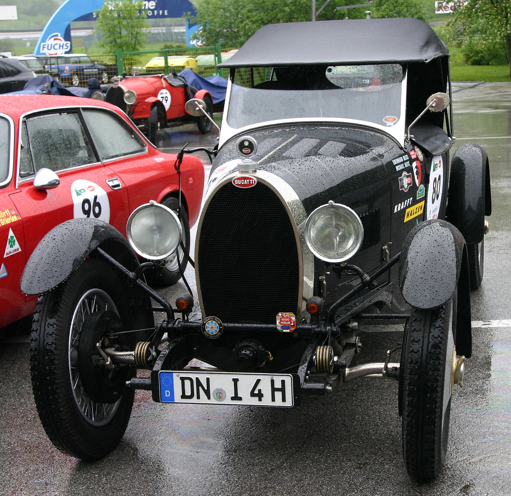 Bugatti Type 40 at the Salzburgring